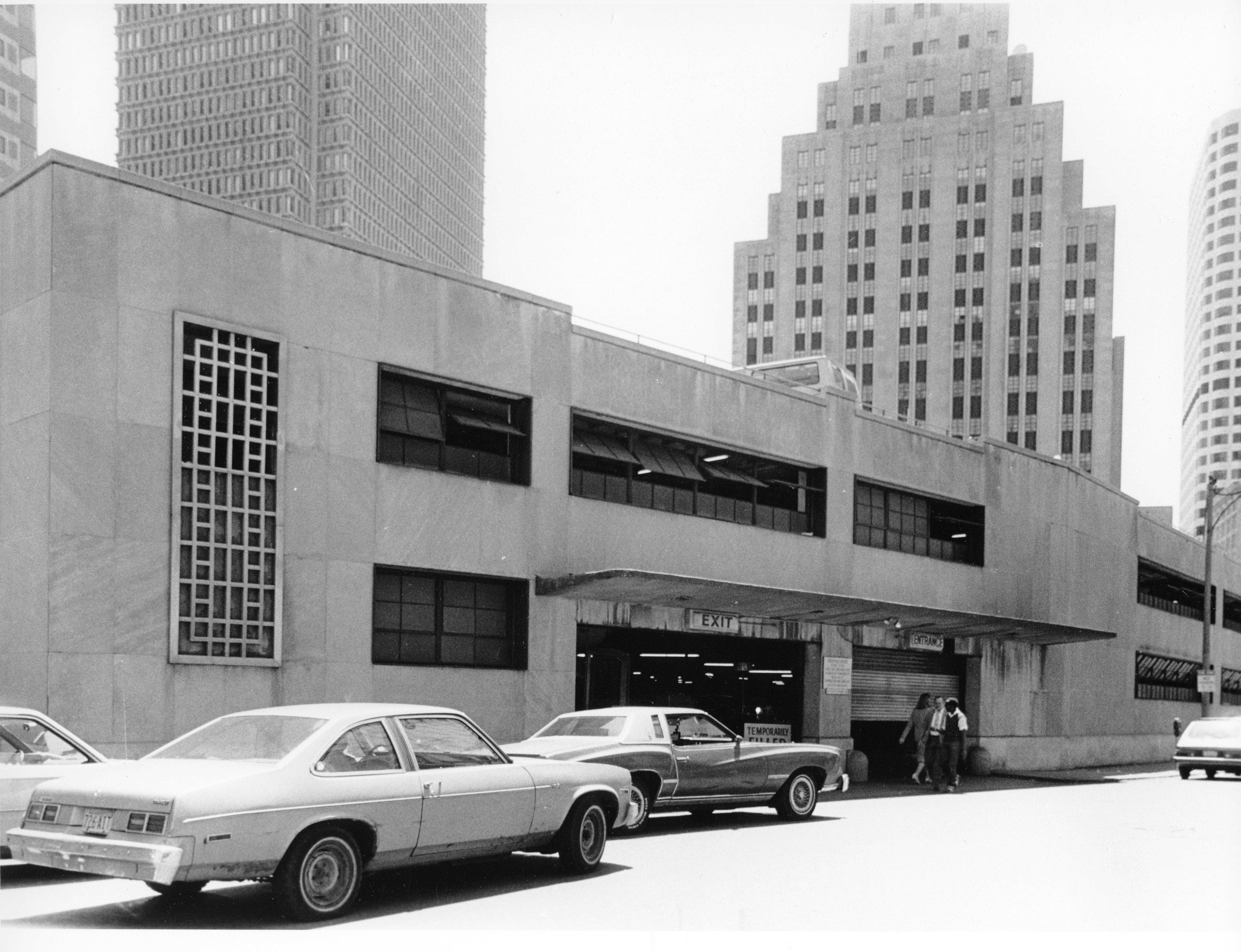 Above-ground garage in Post Office Square, Boston, that was demolished to make way for the creation of Norman Leventhal Park.